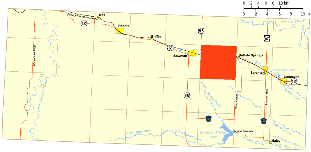 Map of Bowman County, ND, with Talbot Township highlighted